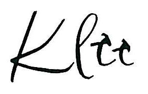 autograph of the painter Paul Klee